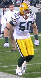 Photo by DK A. J. Hawk #50, cropped by User:Royalbroil from Image:GreenBayPackers2006AJHawkBenTaylor.jpg source imageBefore game